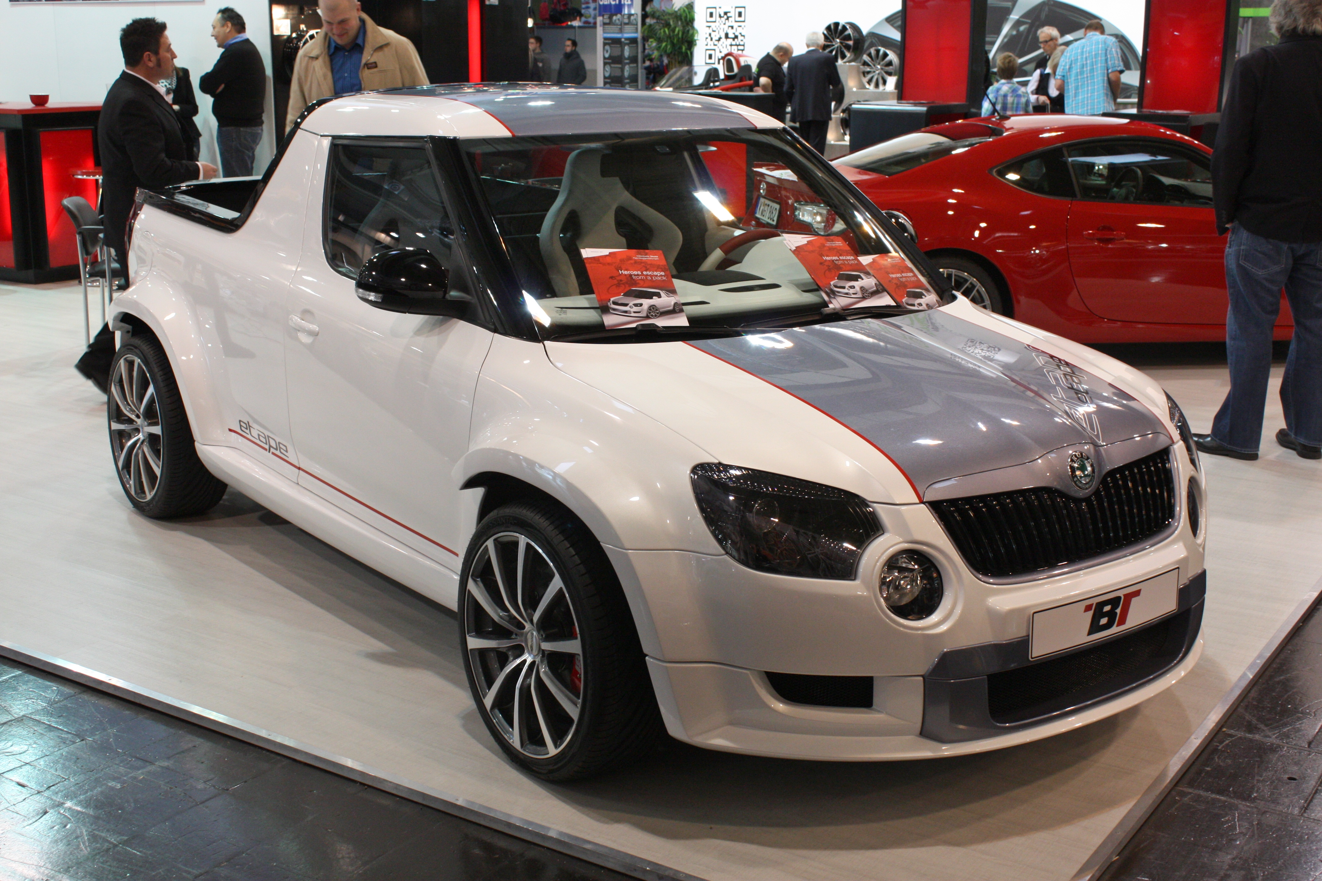 BT (Benet Automotive) Etape concept, based on Skoda Yeti, 2012, seen at Essen Motor Show, Germany, 2012